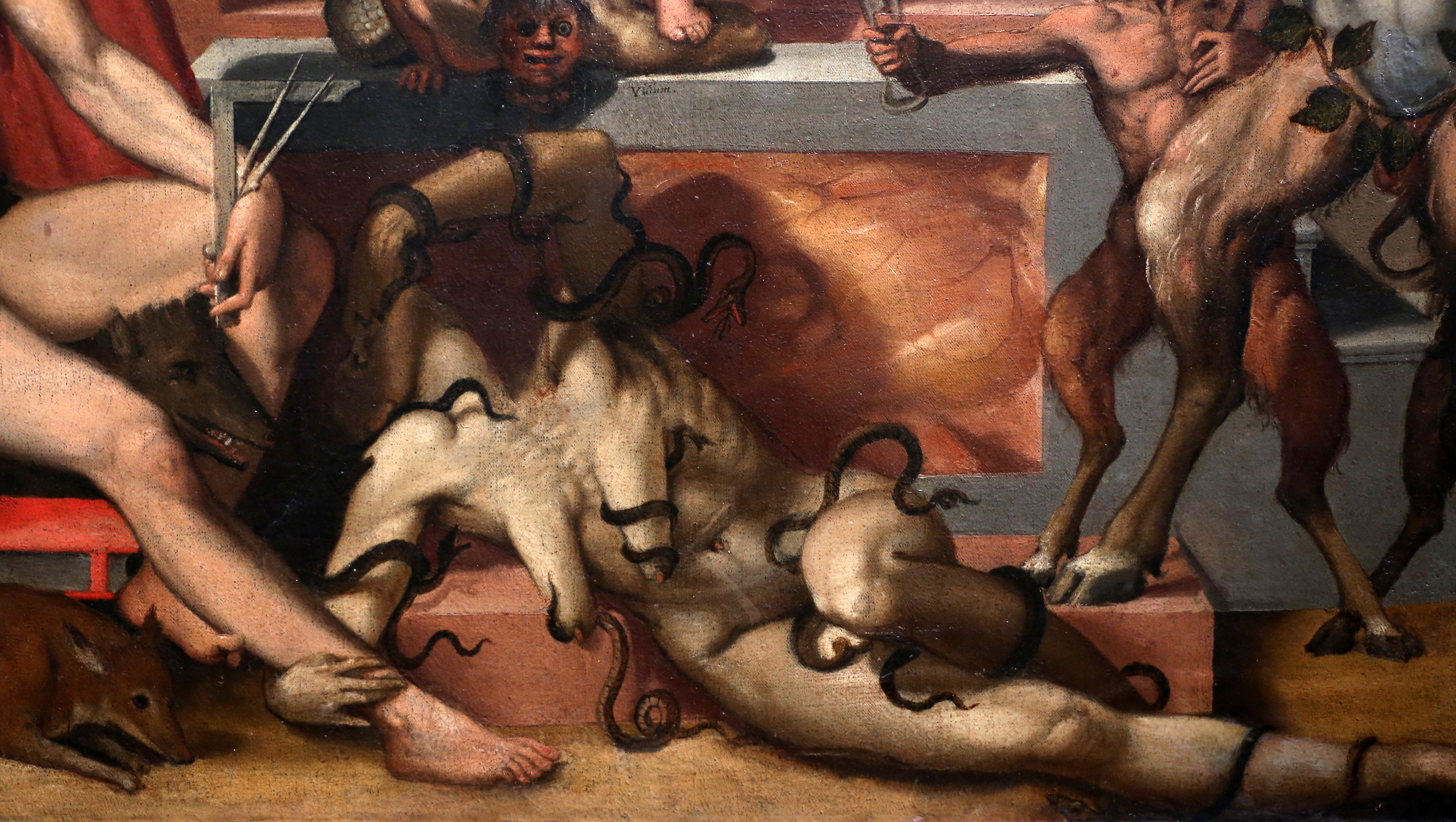 Porta Virtutis